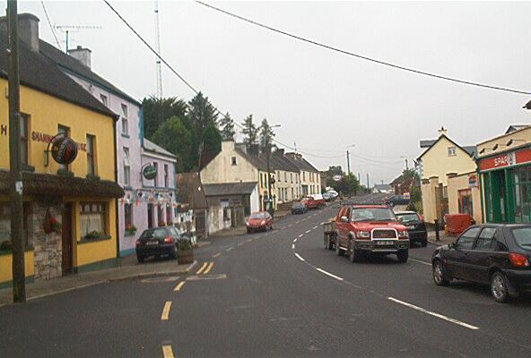 Looking up the main street from the west end of the bridge.